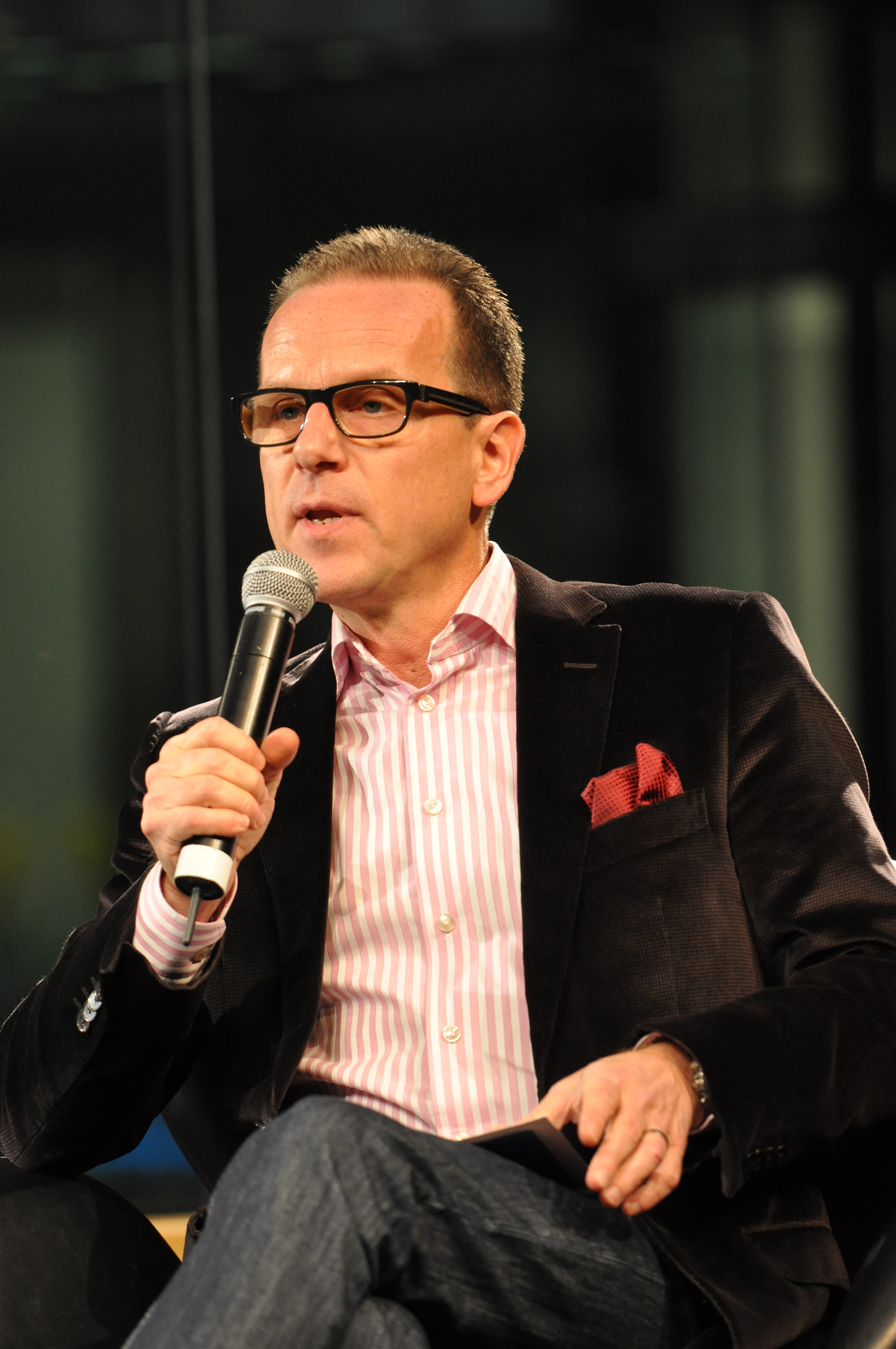 Timo Toropainen is a Finnish journalist.